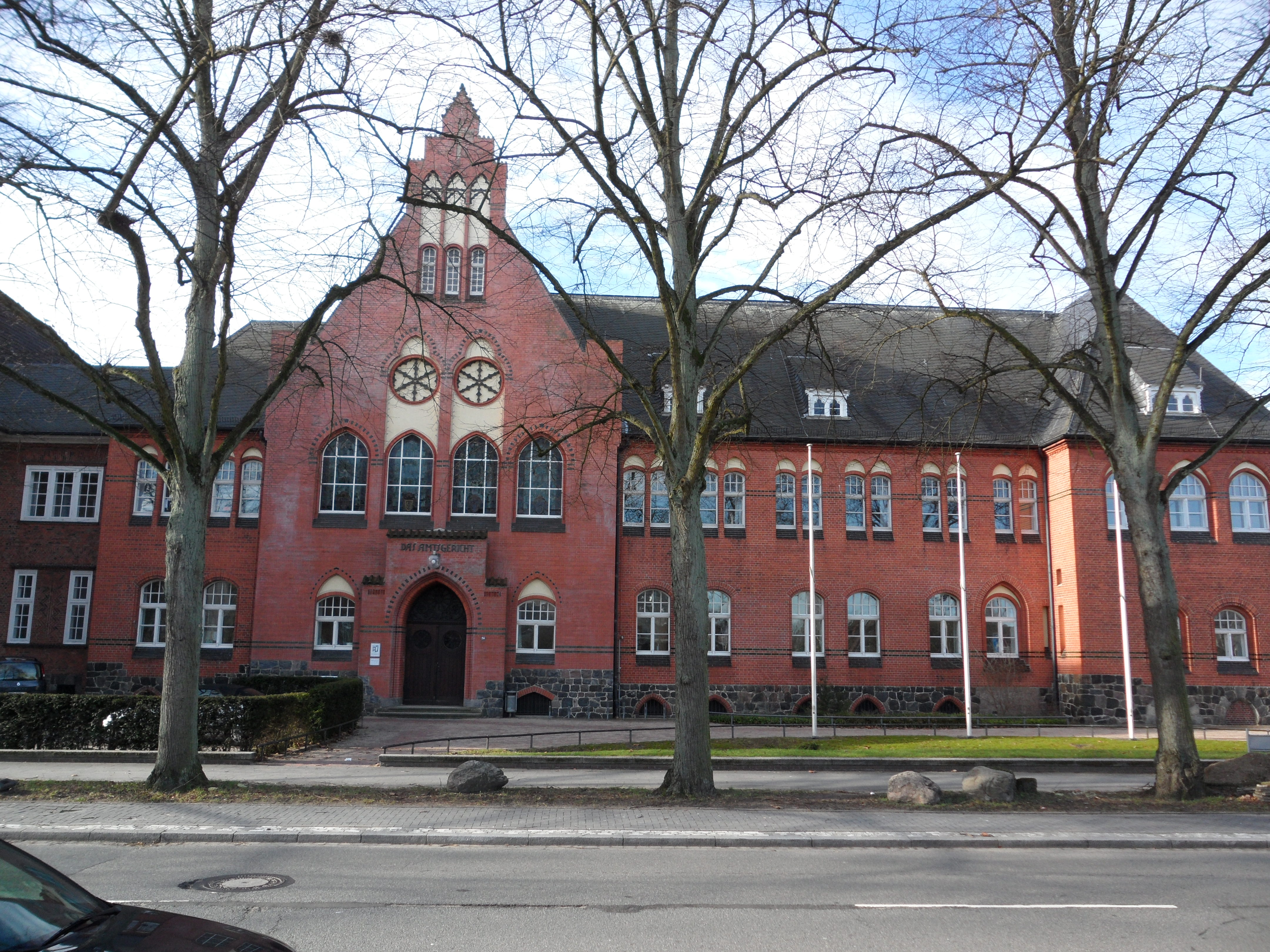 District court in Neumünster located at Boostedter Straße 26